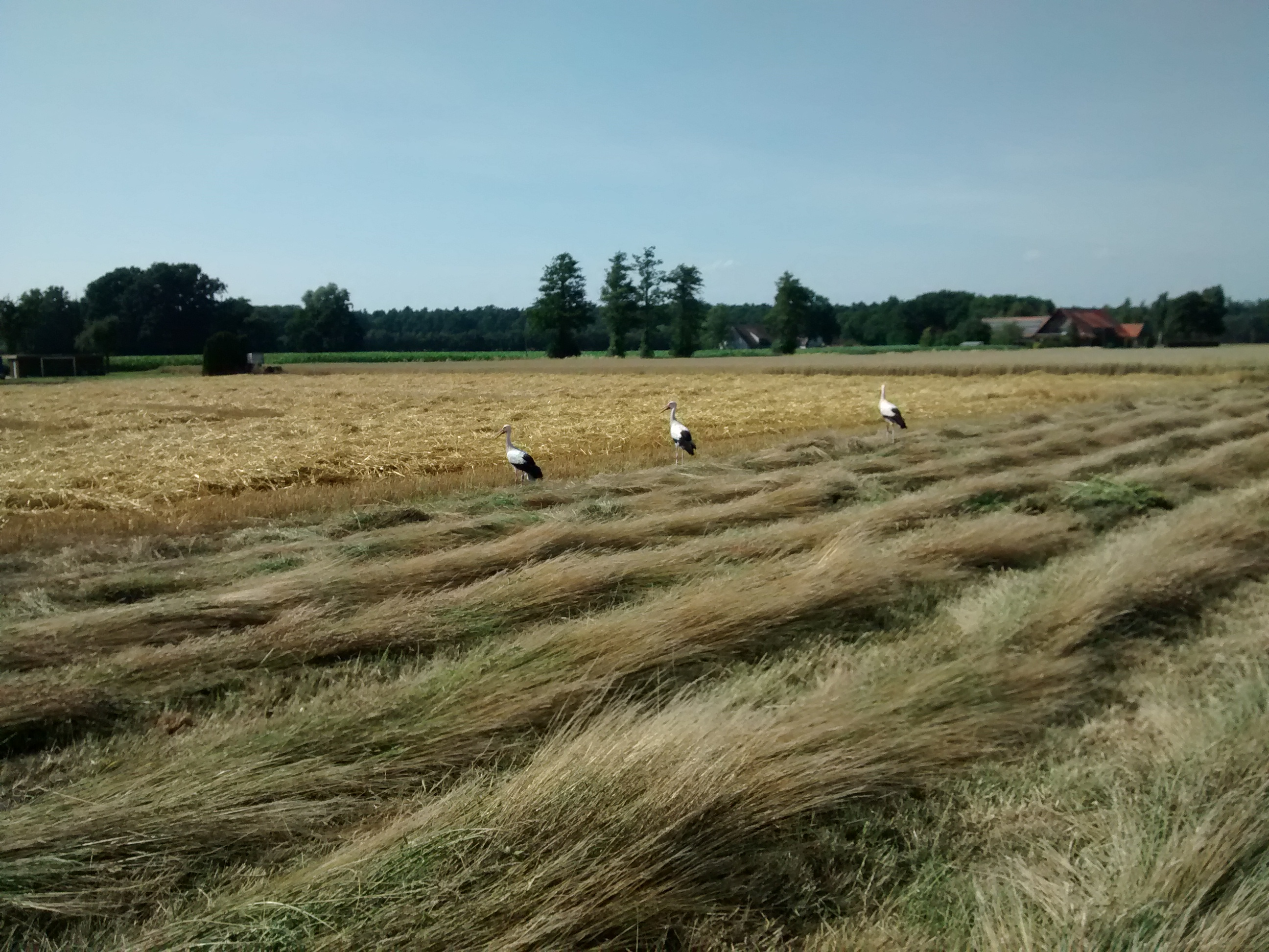 Bei Grasschneidearbeiten in Stemwede-Levern entstanden!